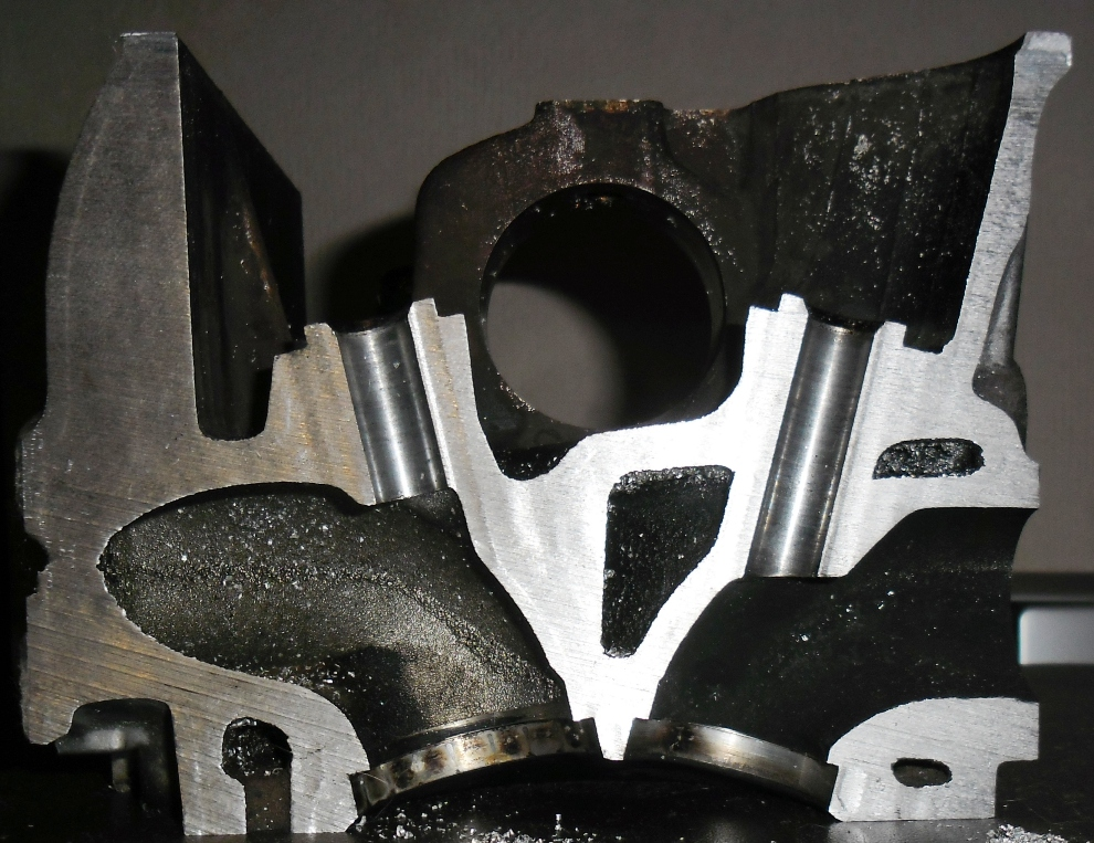 Cutview of a cylinderhead from a Nissan MA12 engine.